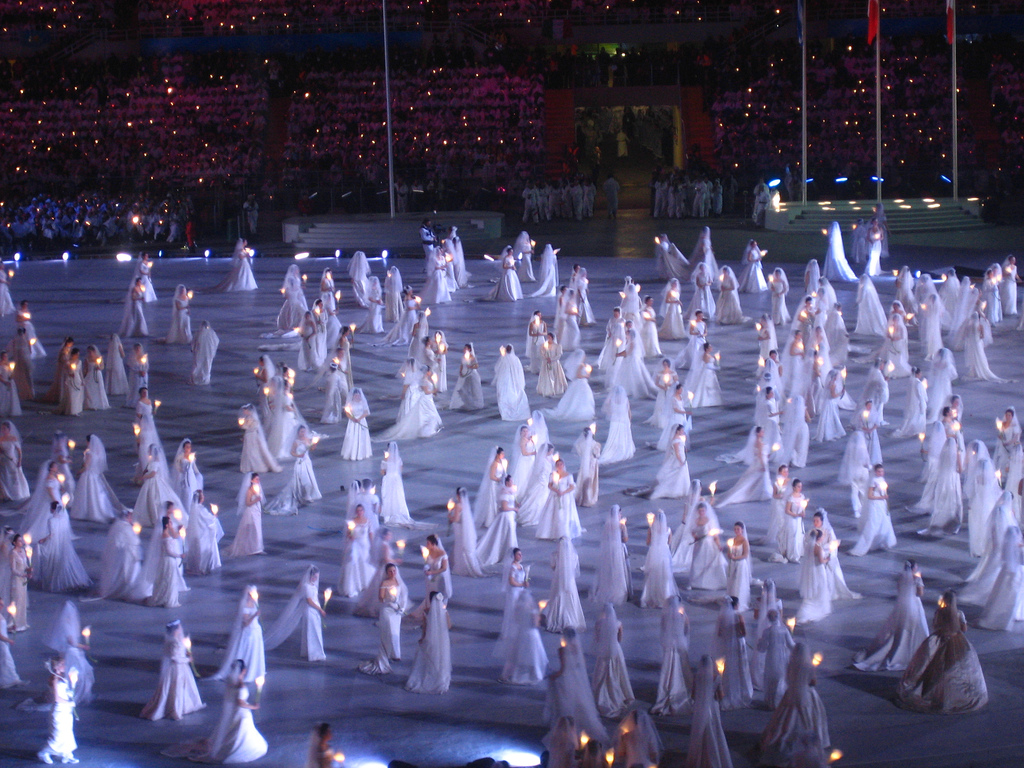 Women carrying lanterns filled the stage.